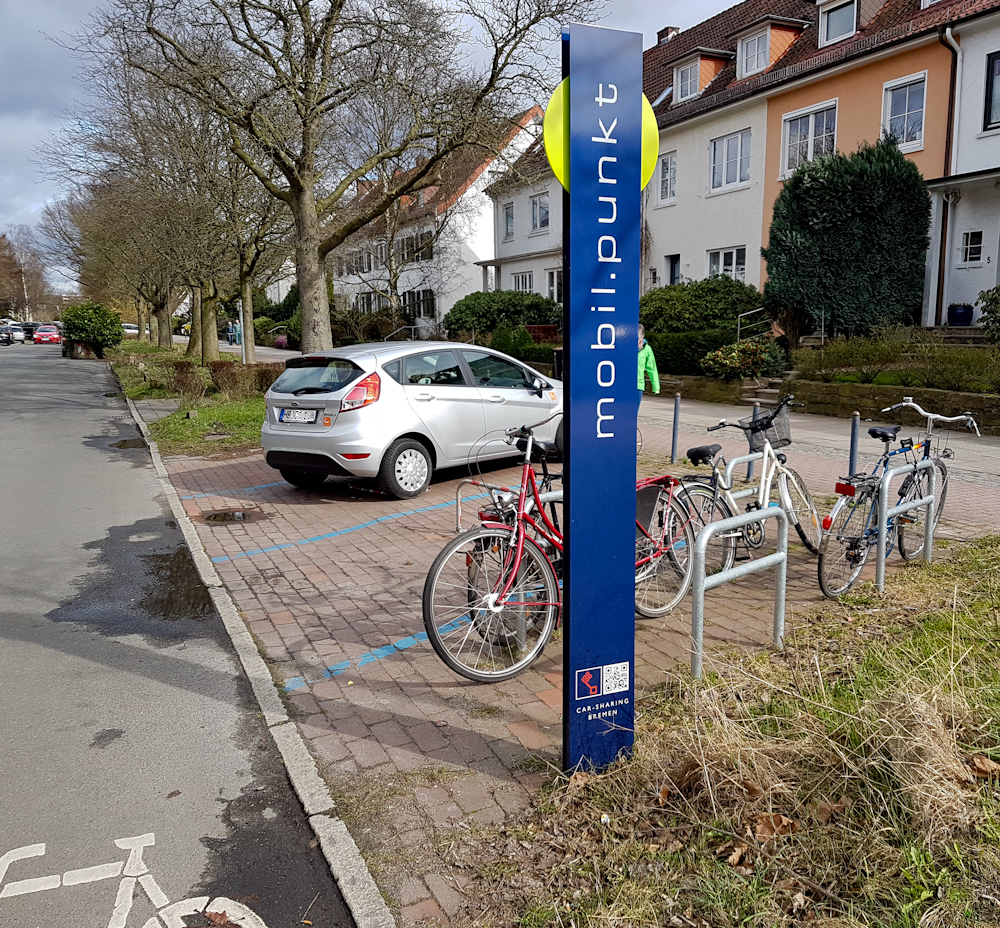 Car-Sharing-Stations in the public space at Bremen are called "mobil.punkte" ("mobile.points"). They are easily accessible with public transportation, by bike or by foot and marked with a distinct pole. Bicycle racks provide safe bike parking for Car-Sharing users as well as residents.